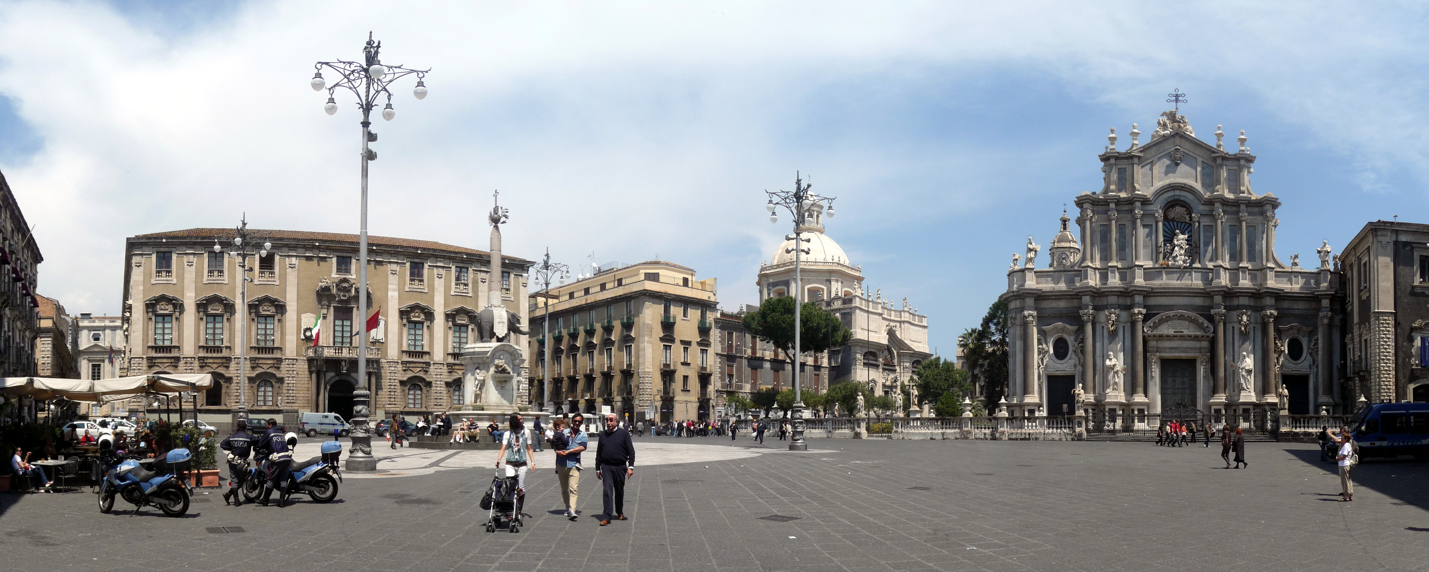 Piazza del Duomo, Catania, Sicily, Italy - Panorama 180° (stitched with Hugin, equirectangular)